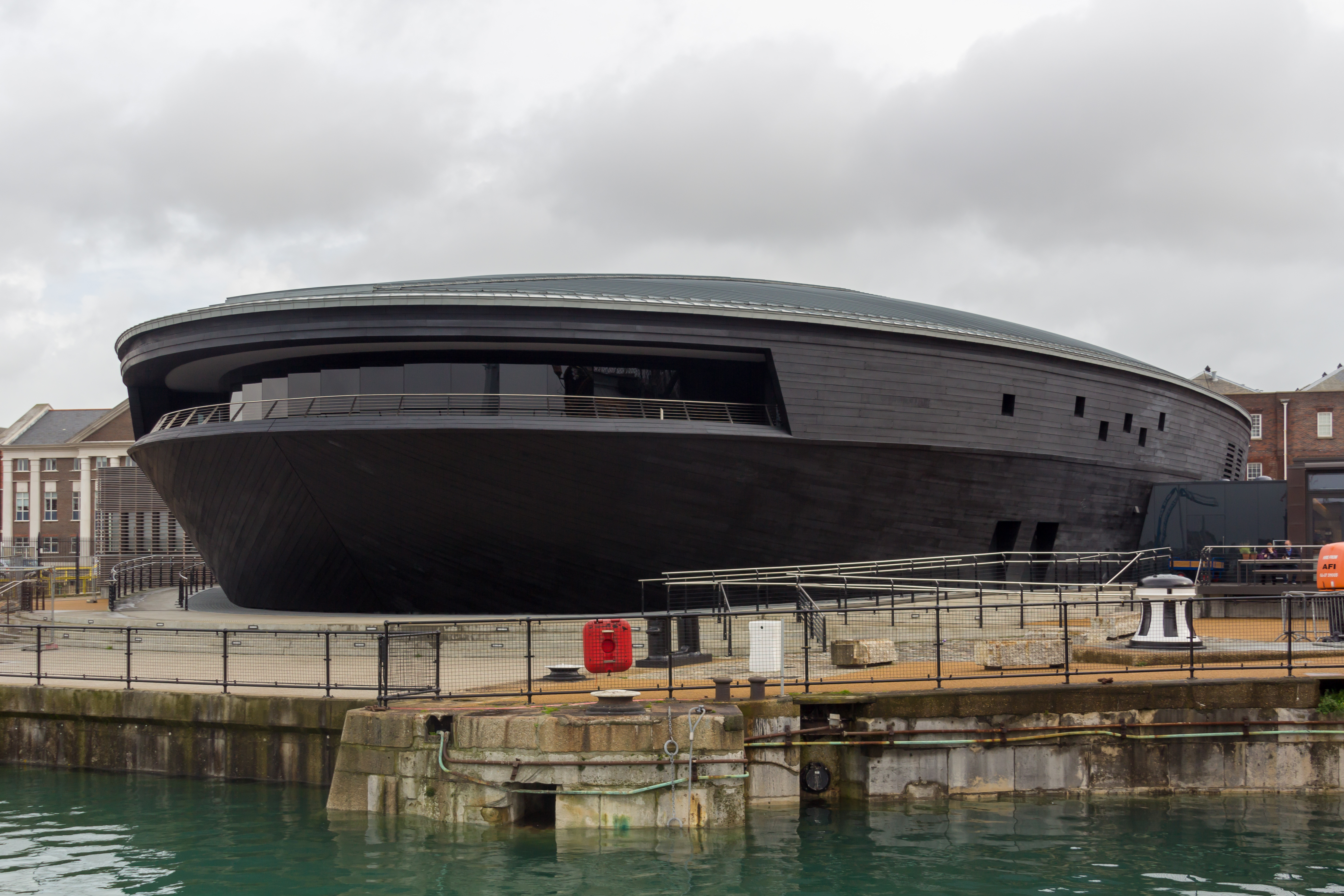 Mary Rose Museum, Portsmouth Historic Dockyard.